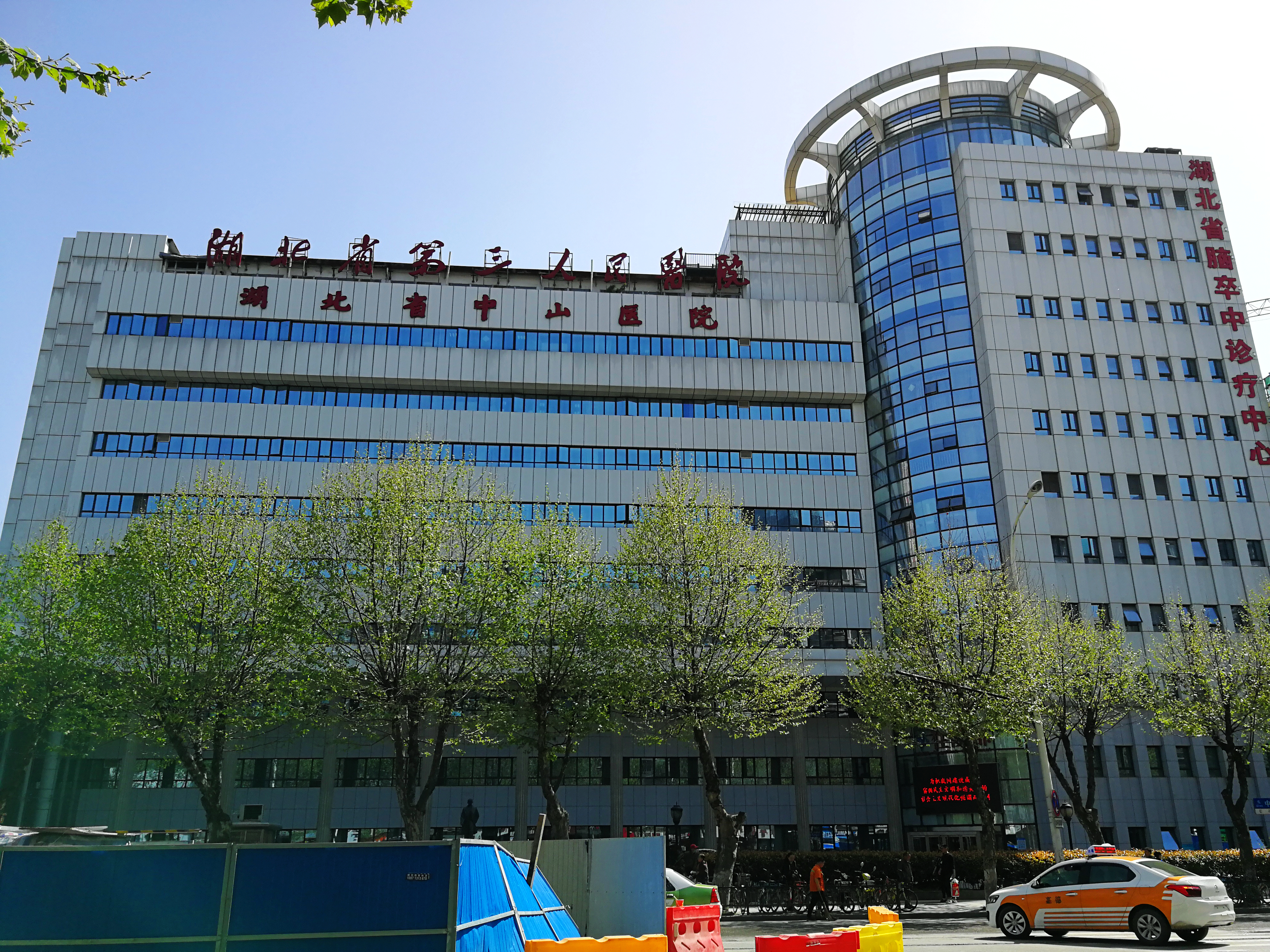 No.3 Hospital of Hubei Province(Hubei Sun_Yat-sen Hospital)